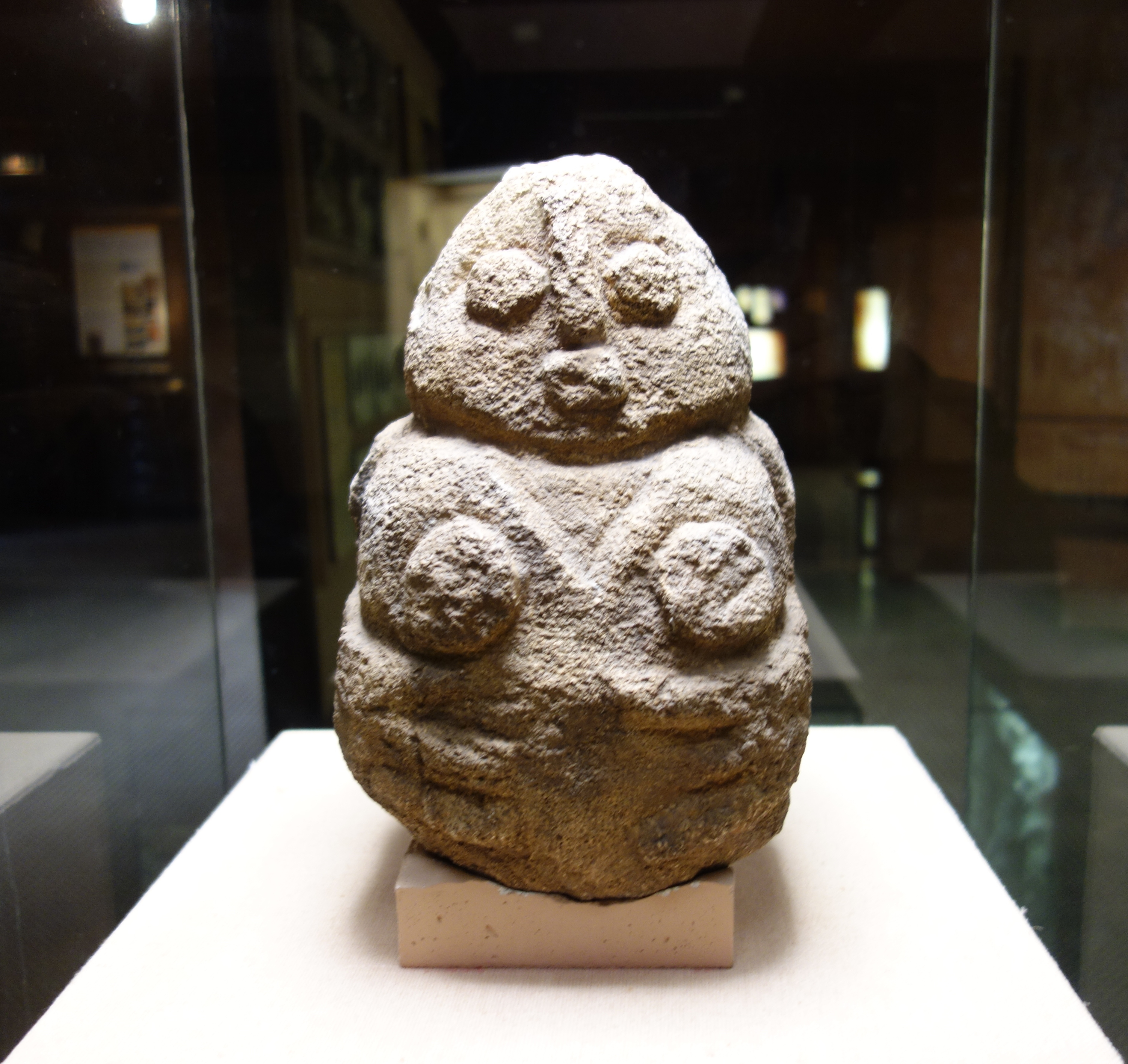 Die Göttin von Capdenac (La déesse de Capdenac), Sandsteinskulptur, Neolithikum (ca. 5000 Jahre alt). Replik (Museum Peche-Merle, Le centre de préhistoire). The Goddess of Capdenac (La déesse de Capdenac), Neolithic Sculpture of sandstone, (ca. 5000 years old). Replica (Museum of Peche-Merle, Le centre de préhistoire).